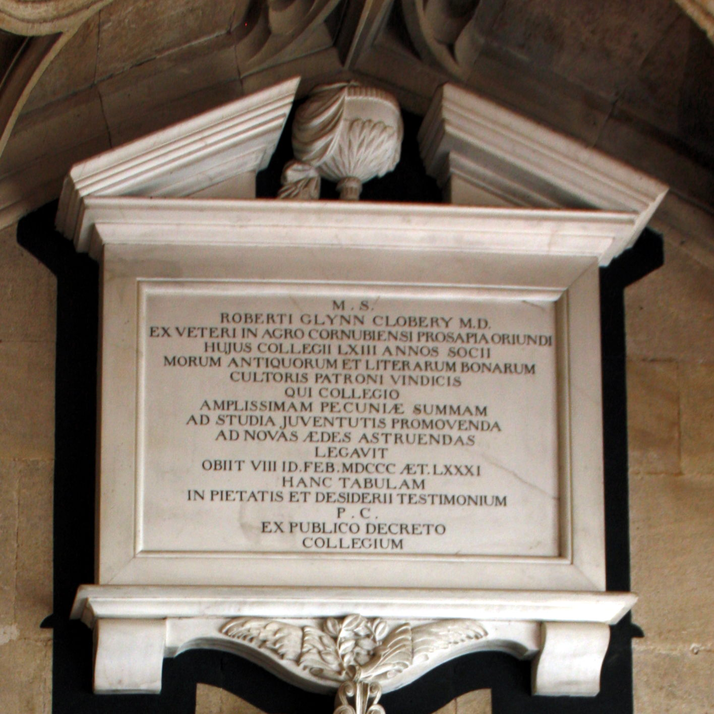 In Memoriam Robert Glynn. King's College chapel, Cambridge.